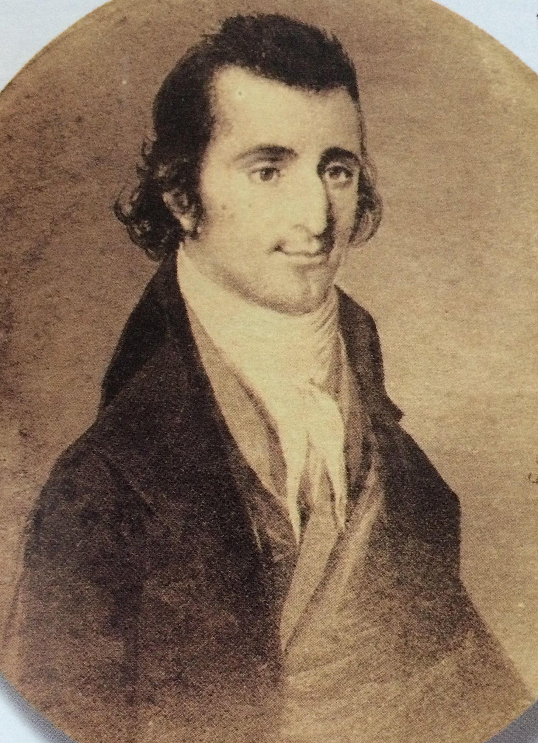 Reproduction of an early 19th century print representing Capt. Gamaliel Bradford, merchant and privateersman during the Quasi-War with France